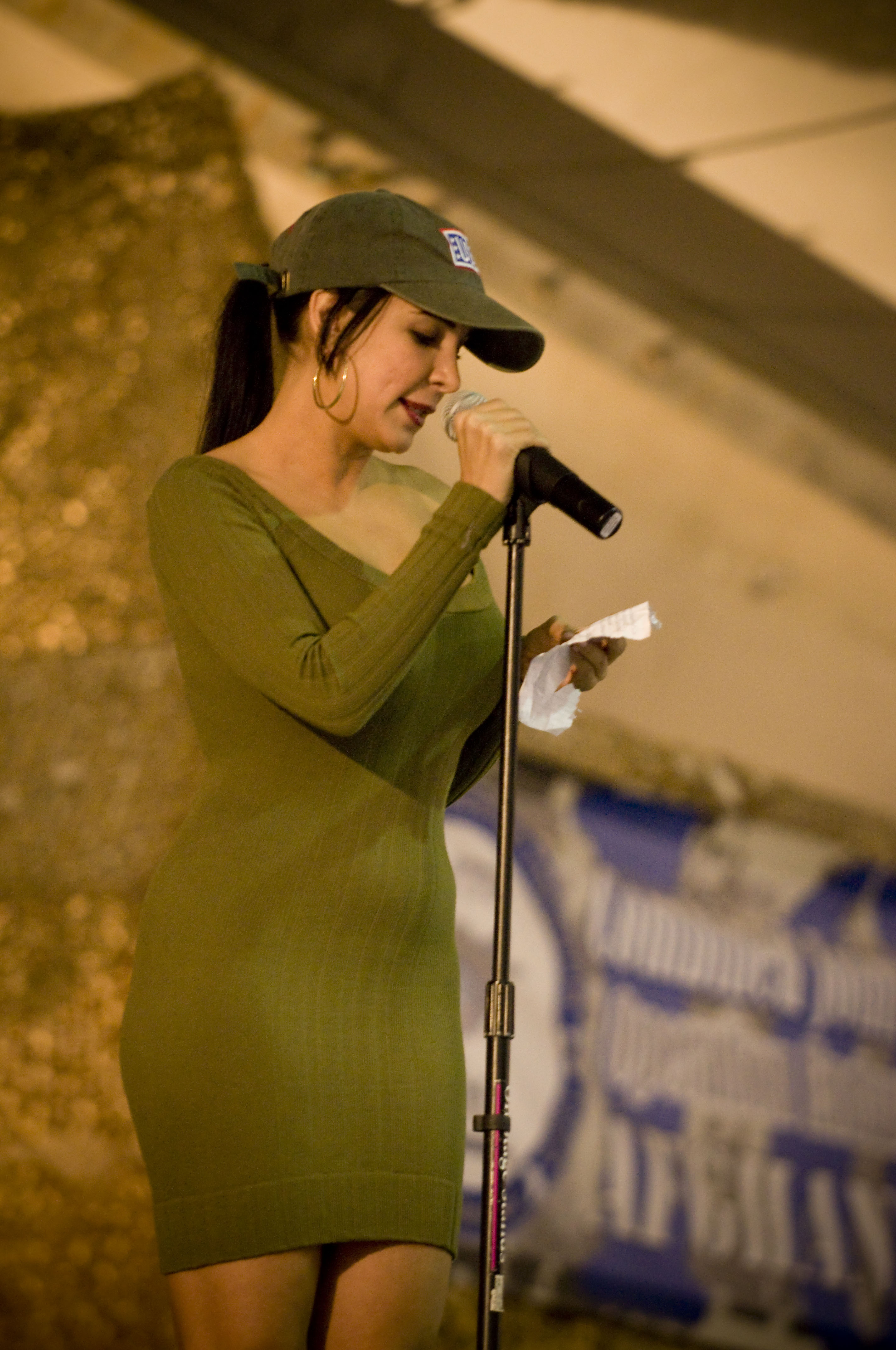 Mayra Veronica, model and singer with United Service Organization "Around the World in 8 Days," reads a heart-felt tribute to the troops before singing "I'm Proud to be an American" at Bagram Air Field, Afghanistan, Nov. 13.